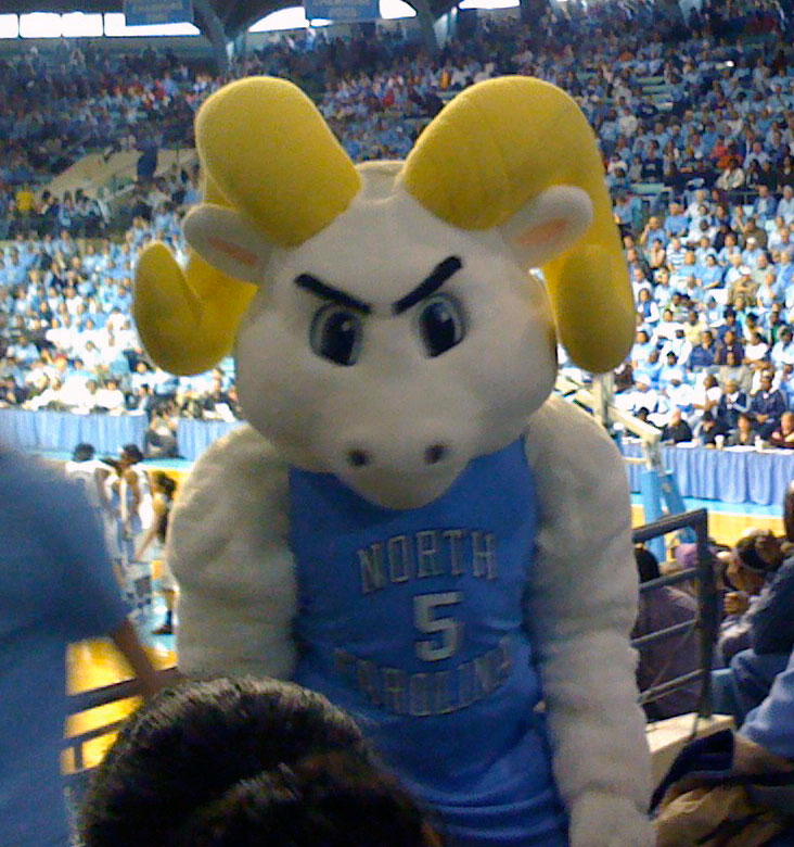 Rameses The Ram